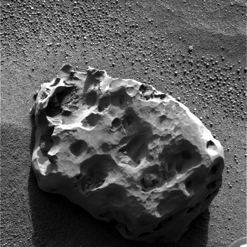 Heat Shield Rock, imaged by Mars rover Opportunity on Sol 346 of its mission, at 15:45:59 Mars local solar time. "Blueberries" (hematite concretions) are visible on the ground behind it. Left Panoramic Camera Non-linearized Full frame EDR acquired on Sol 346 of Opportunity's mission to Meridiani Planum at approximately 15:45:59 Mars local solar time, camera commanded to use Filter 7 (432 nm).